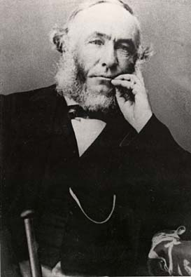 Portrait of Silvester Diggles (1817-1880), Australian artist and musician